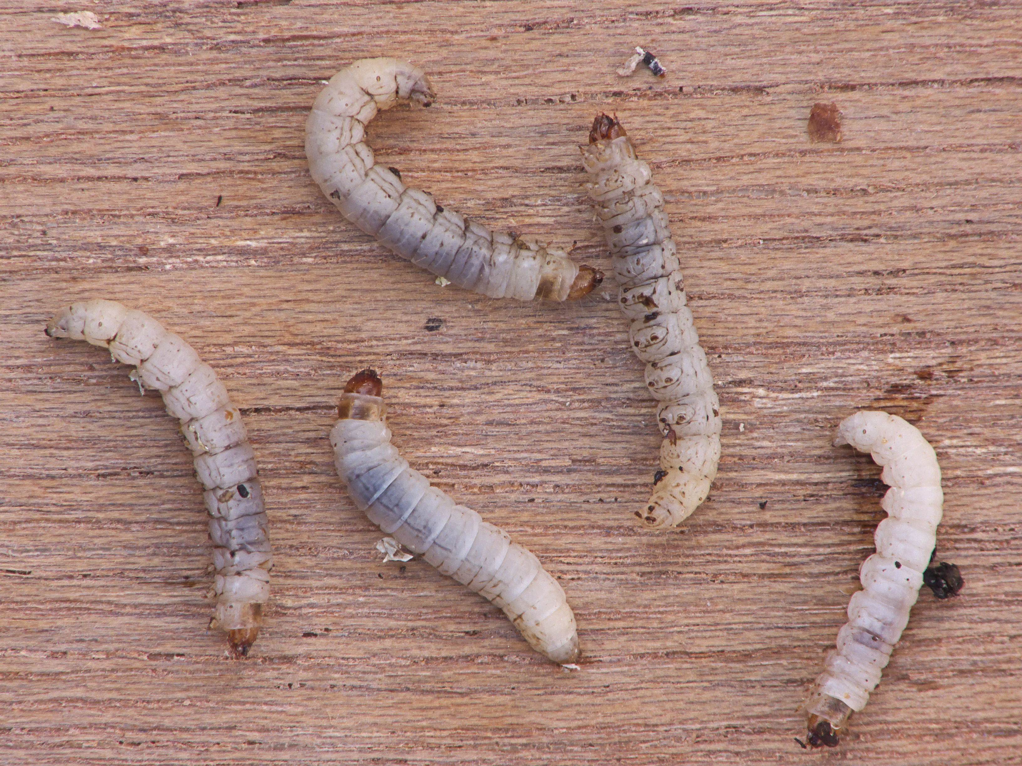 Achroia grisella caterpillars, length 13-15 mm